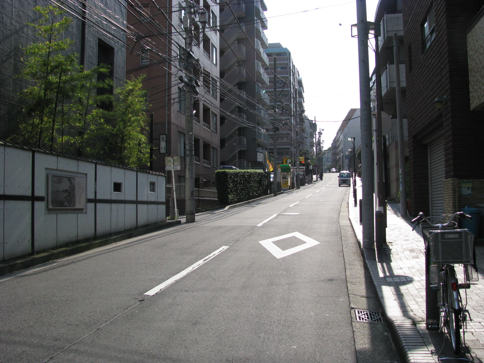 Kanagawa Jyuku on Tokaido. Yokohama, Kanagawa, Japan.